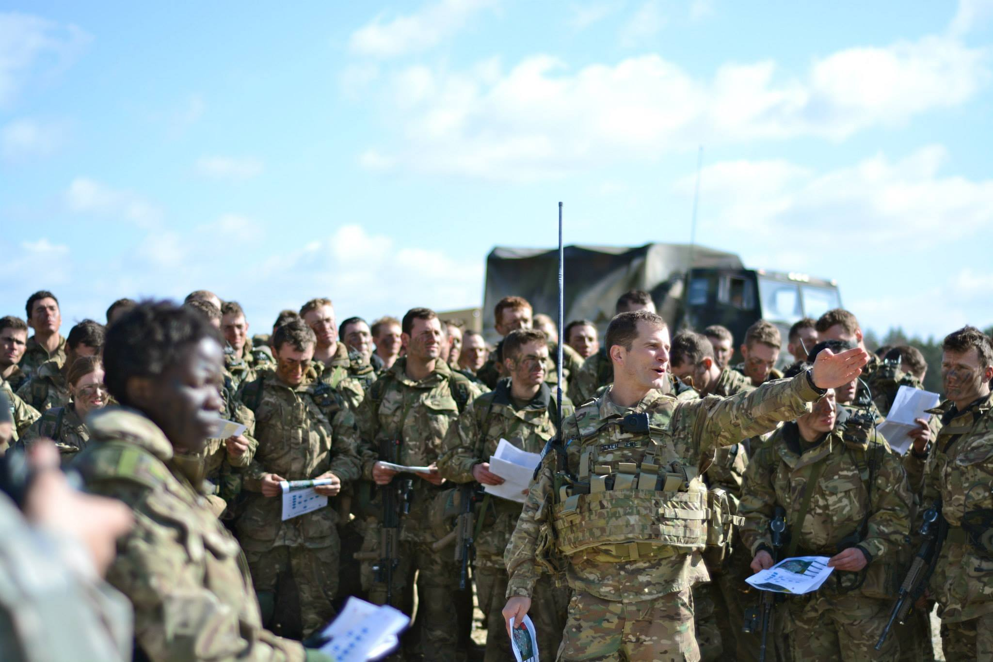 British officer cadets from the Royal Military Academy Sandhurst joined U.S. Army paratroopers from 1st Battalion, 503rd Infantry Regiment, 173rd Airborne Brigade during various combined arms demonstrations and live-fire events, here March 12, 2015.